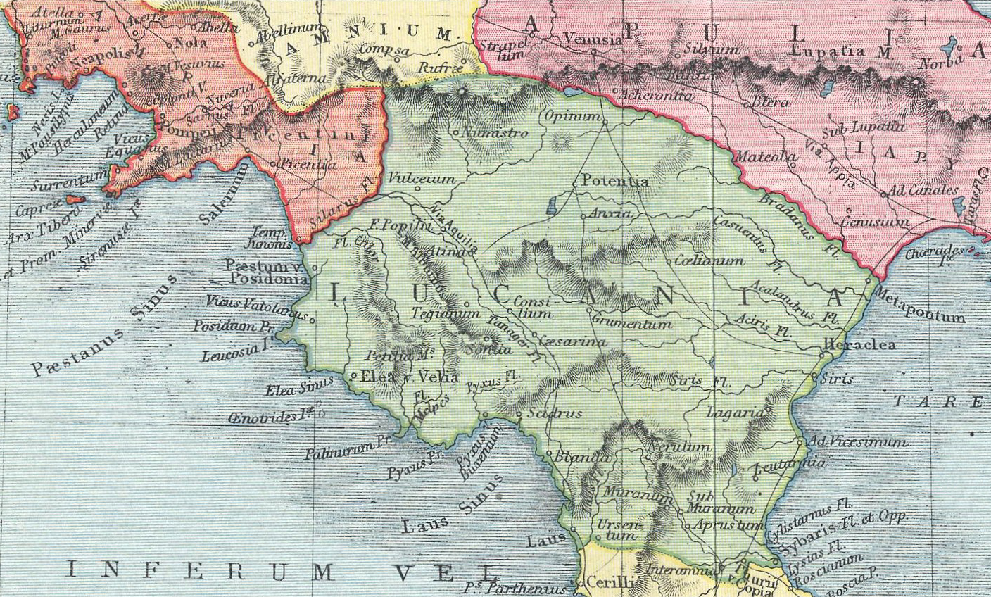 Lucania, part of the Atlas of Ancient and Classical Geography by Samuel Butler